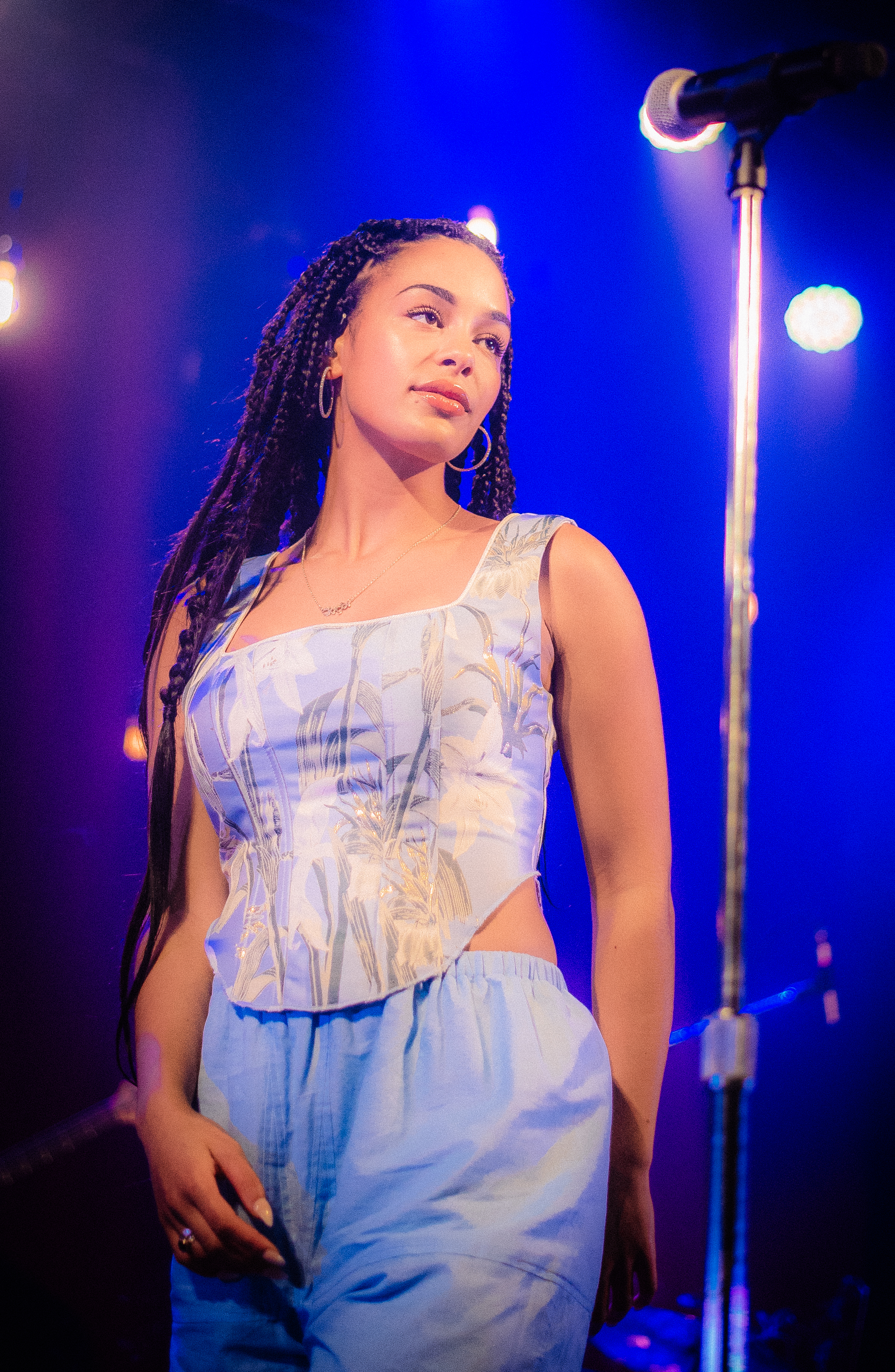 Jorja Smith at The Opera House (DSC_6077)